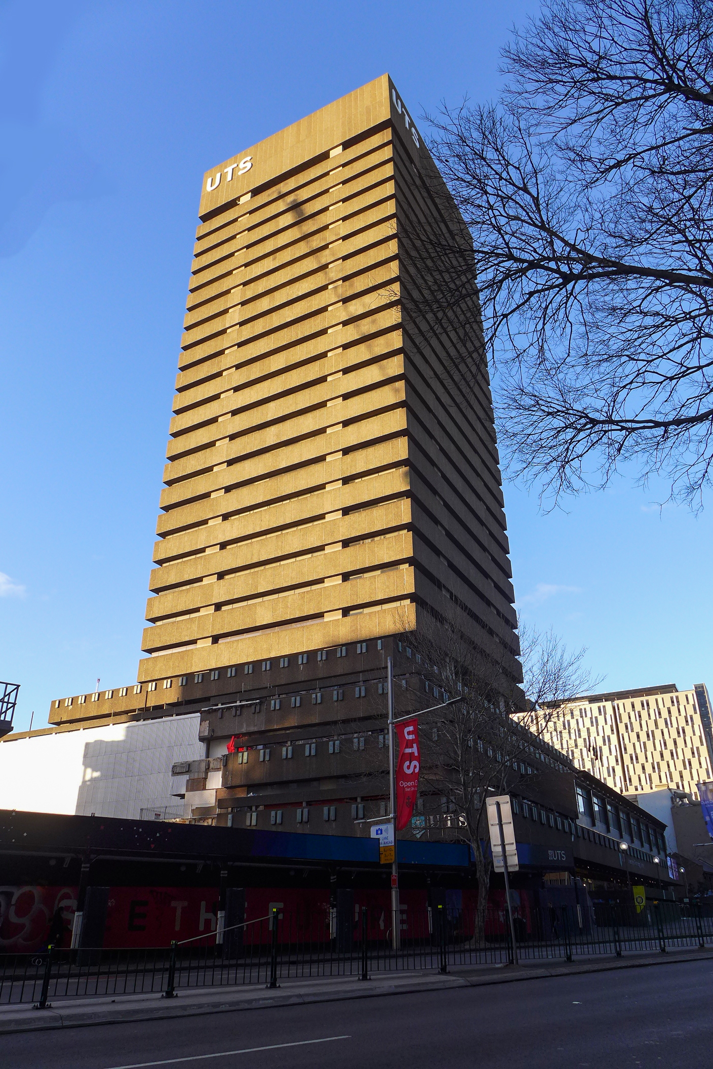 UTS Tower Building, Sydney